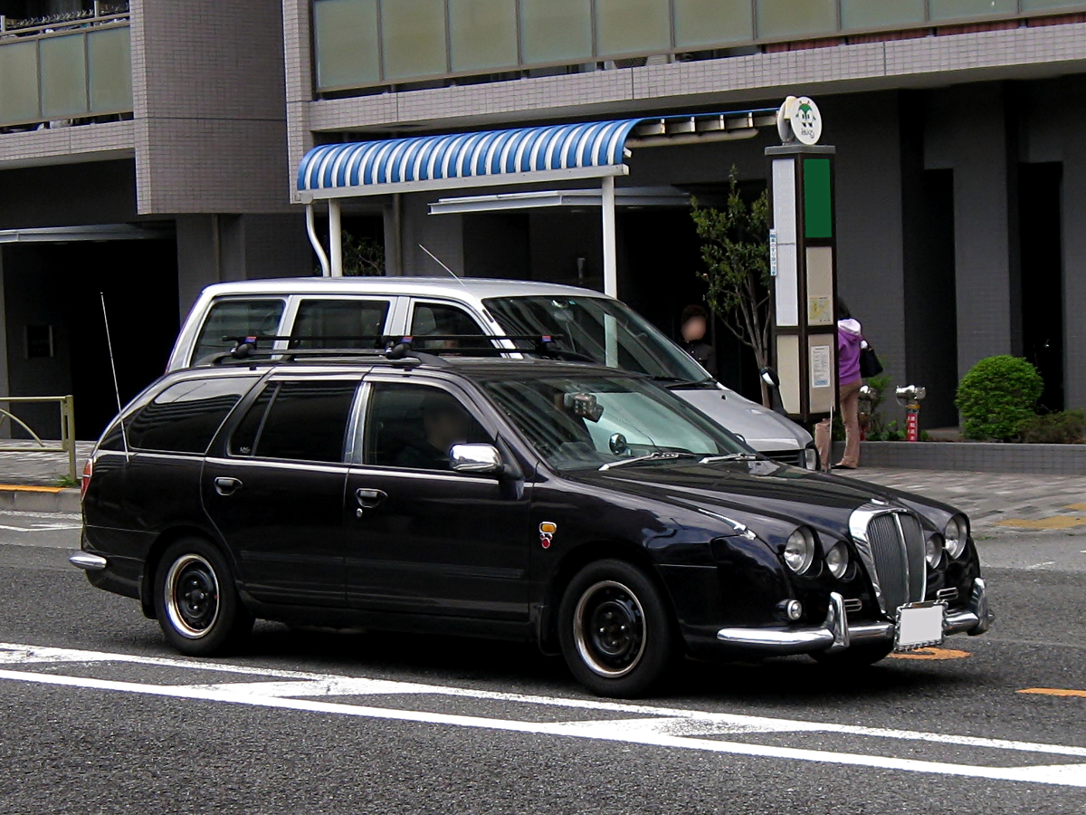 Mitsuoka Ryoga Wagon